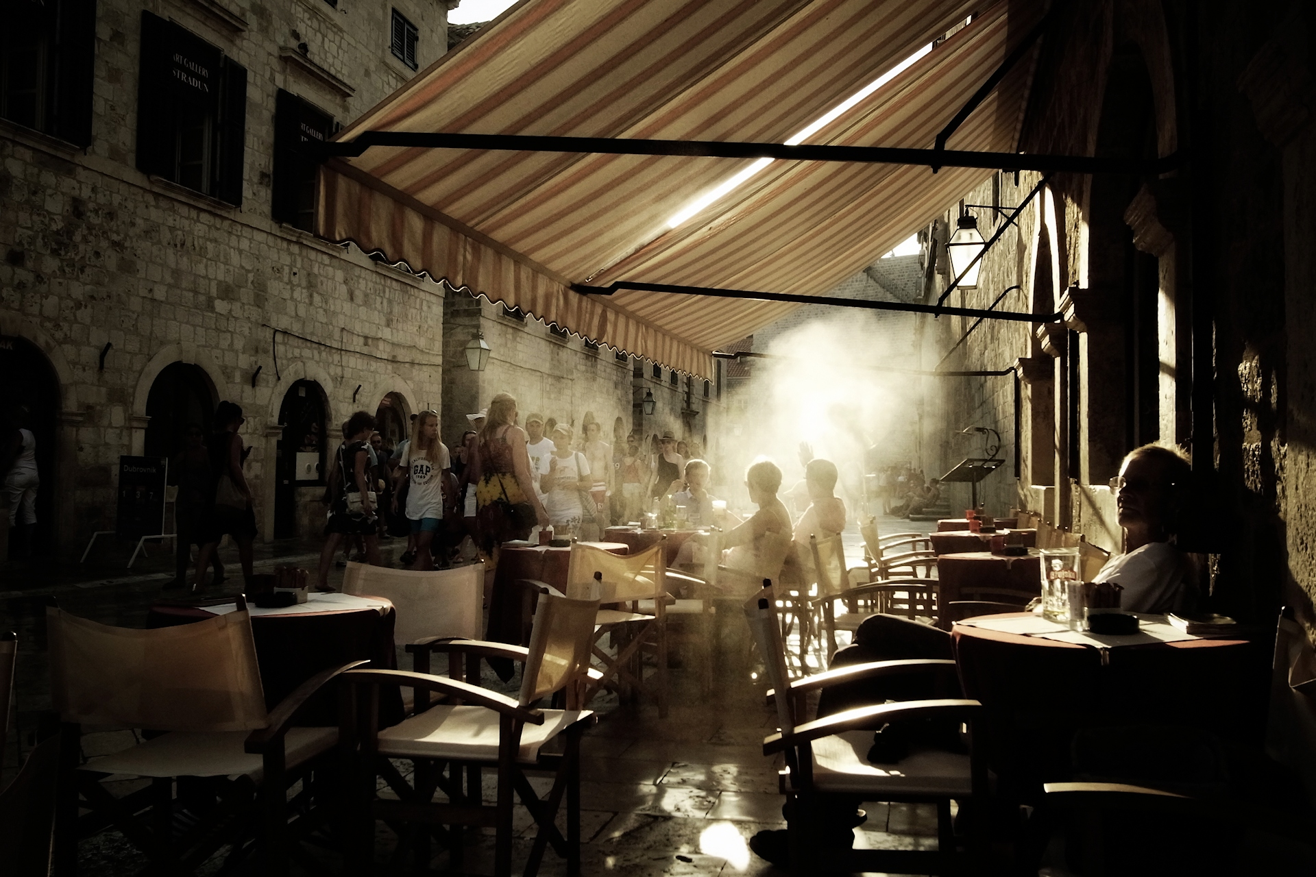 Café in the Old Town of Dubrovnik.